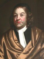 This is a painting of Simon Bradstreet, who was governor of the Massachusetts Bay Colony from 1679 to 1686.